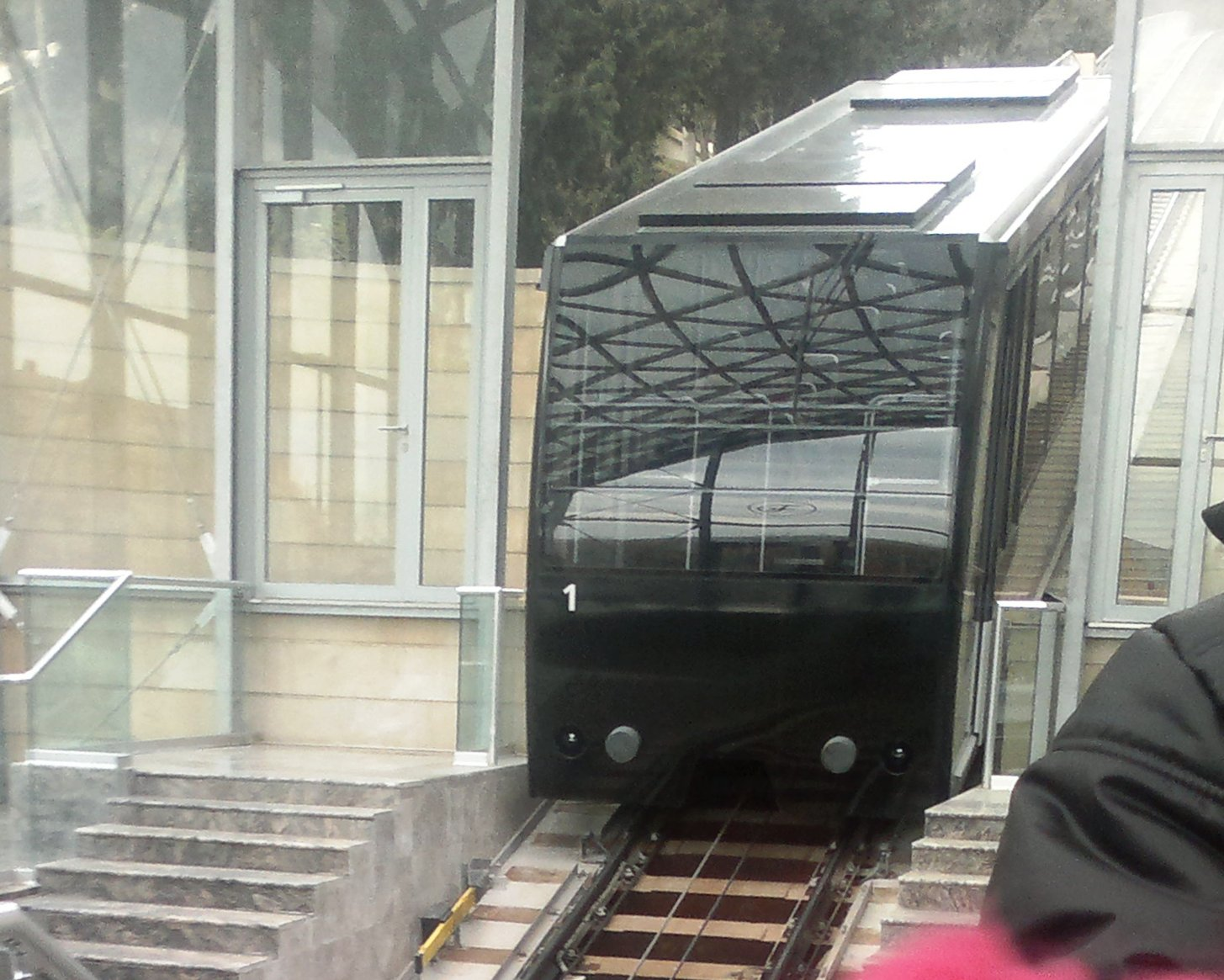 Train of Baku Funicular.